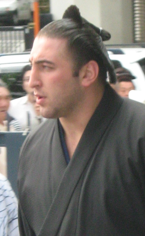 Tochinoshin Tsuyoshi